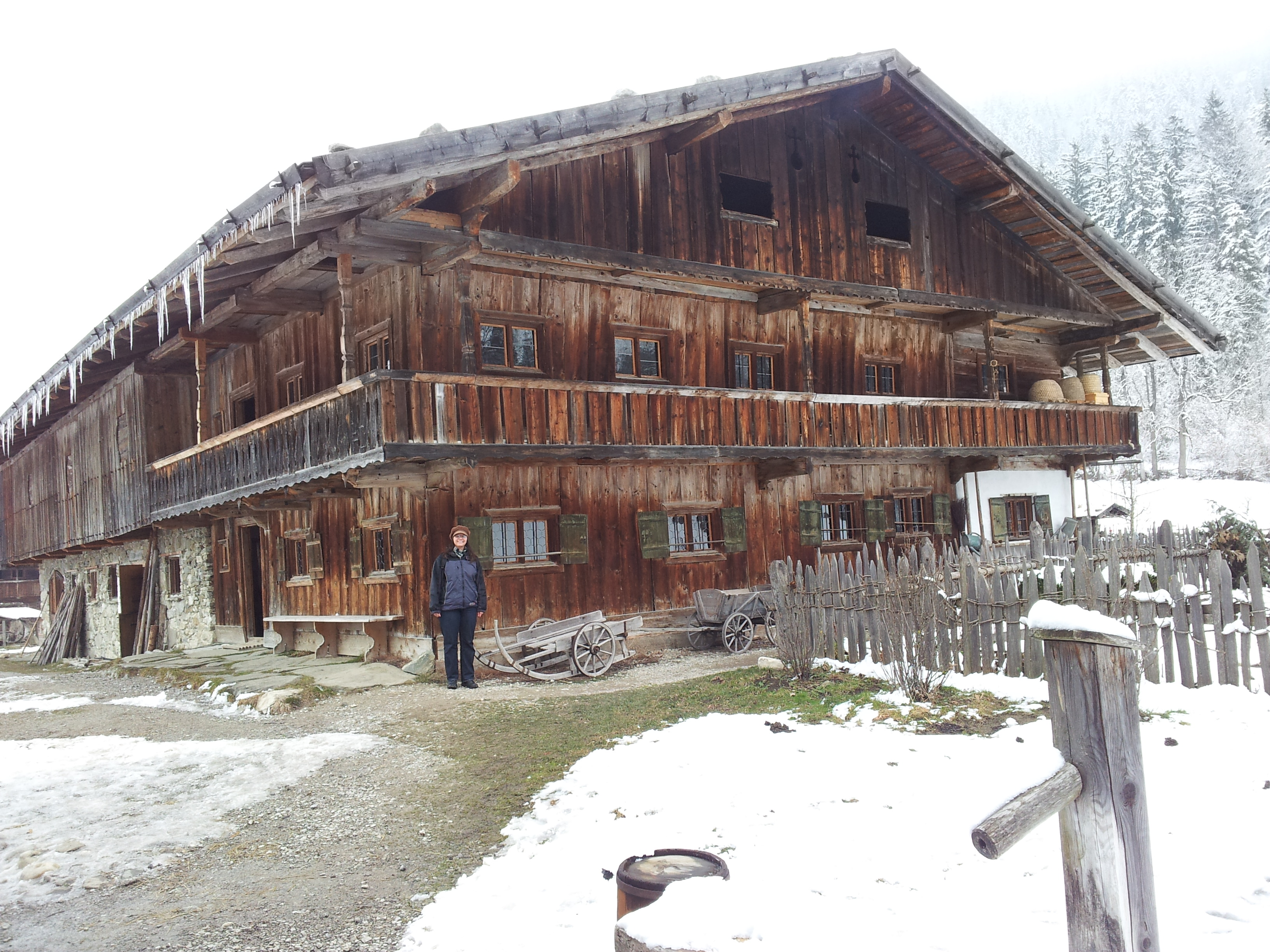 Markus Wasmeier farm and winter sports museum, Lukashof